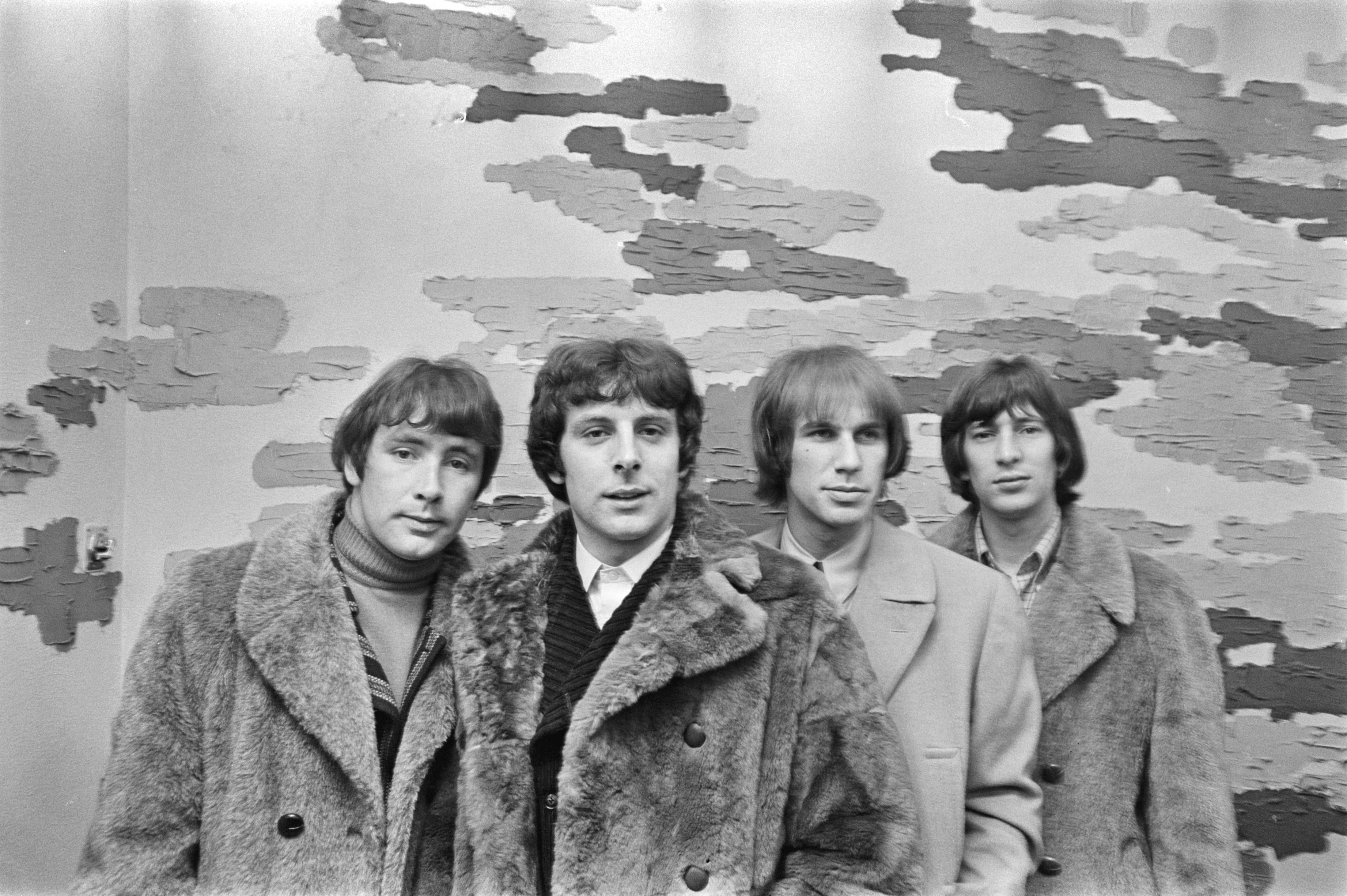 The Troggs at Schiphol Airport, 1966